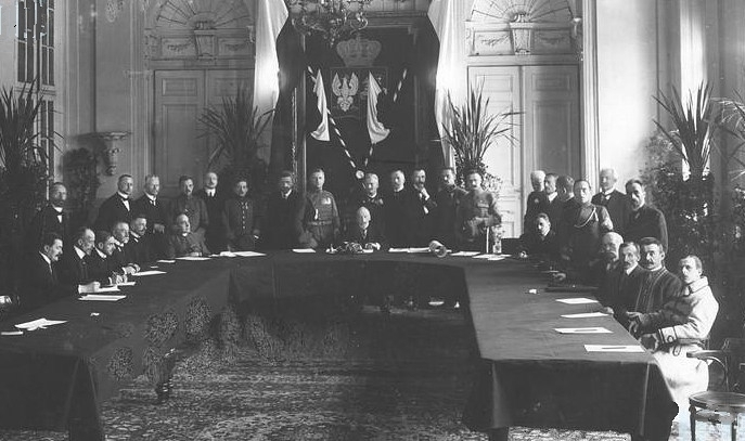 Provisional Council of State, substitute of Polish parliament 1917-1918